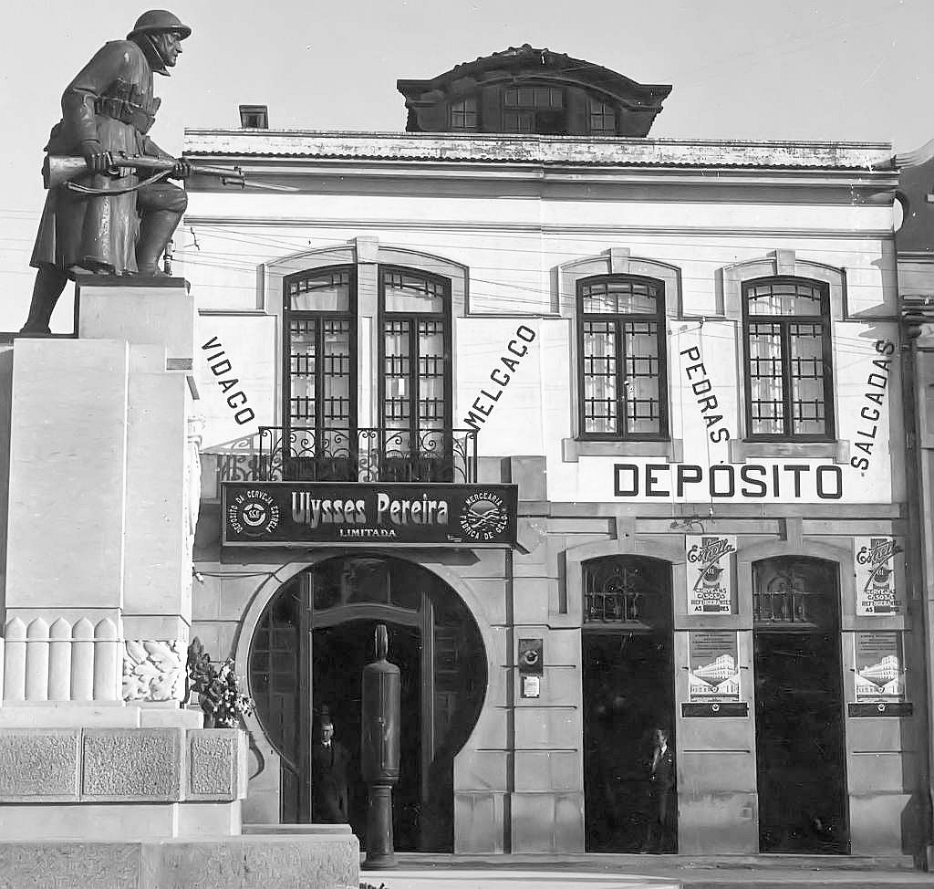 Unknown Soldier Monument - Aveiro, Portugal - c.1940